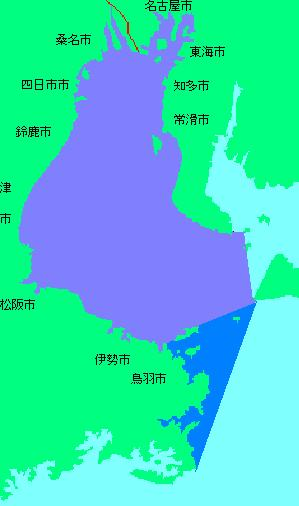 This is the map of Ise Bay,Largest bay in Japan.